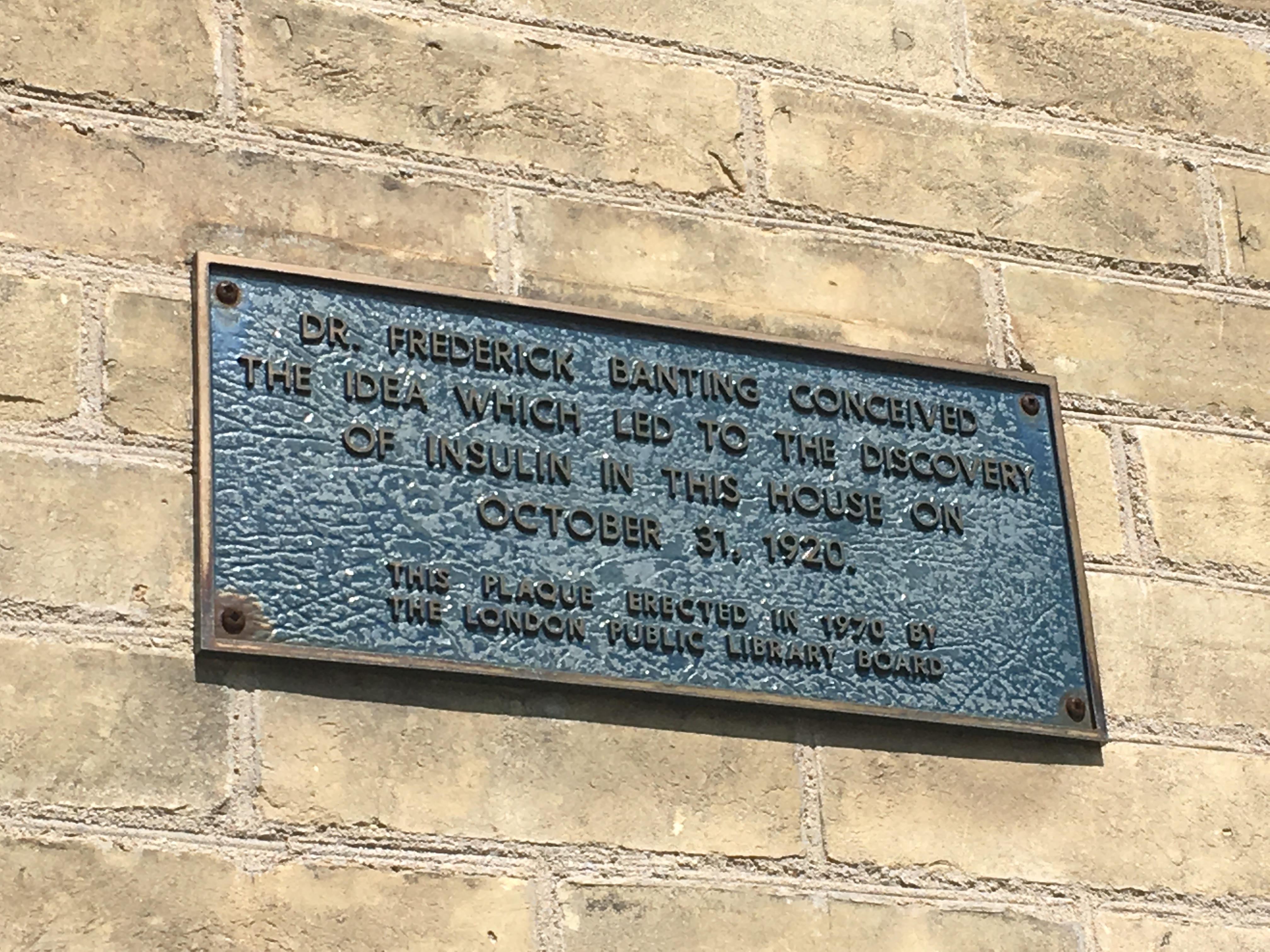 Plaque at Banting House, 442 Adelaide Street North, London, Ontario